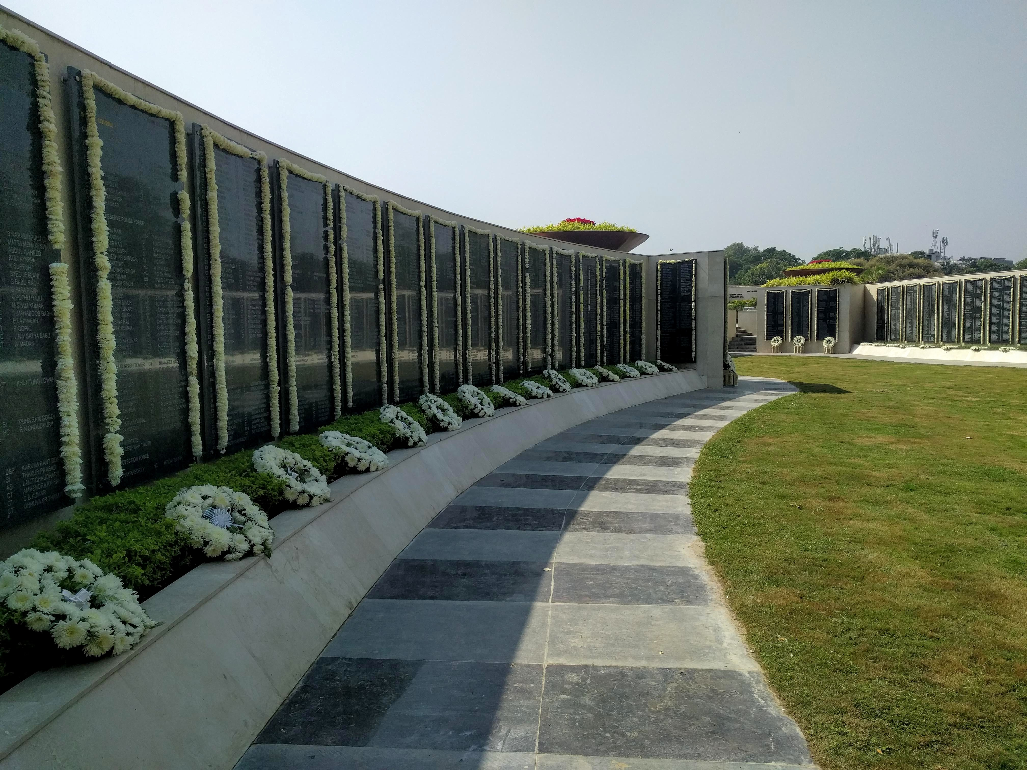 The Wall of Valour at the National Police Memorial and Museum in New Delhi, India. The picture shows one section of the wall. The entire wall lists all the 34,844 police personnel from all of the central and state police forces in India who have laid down their lives in the line of duty since Independence in 1947.